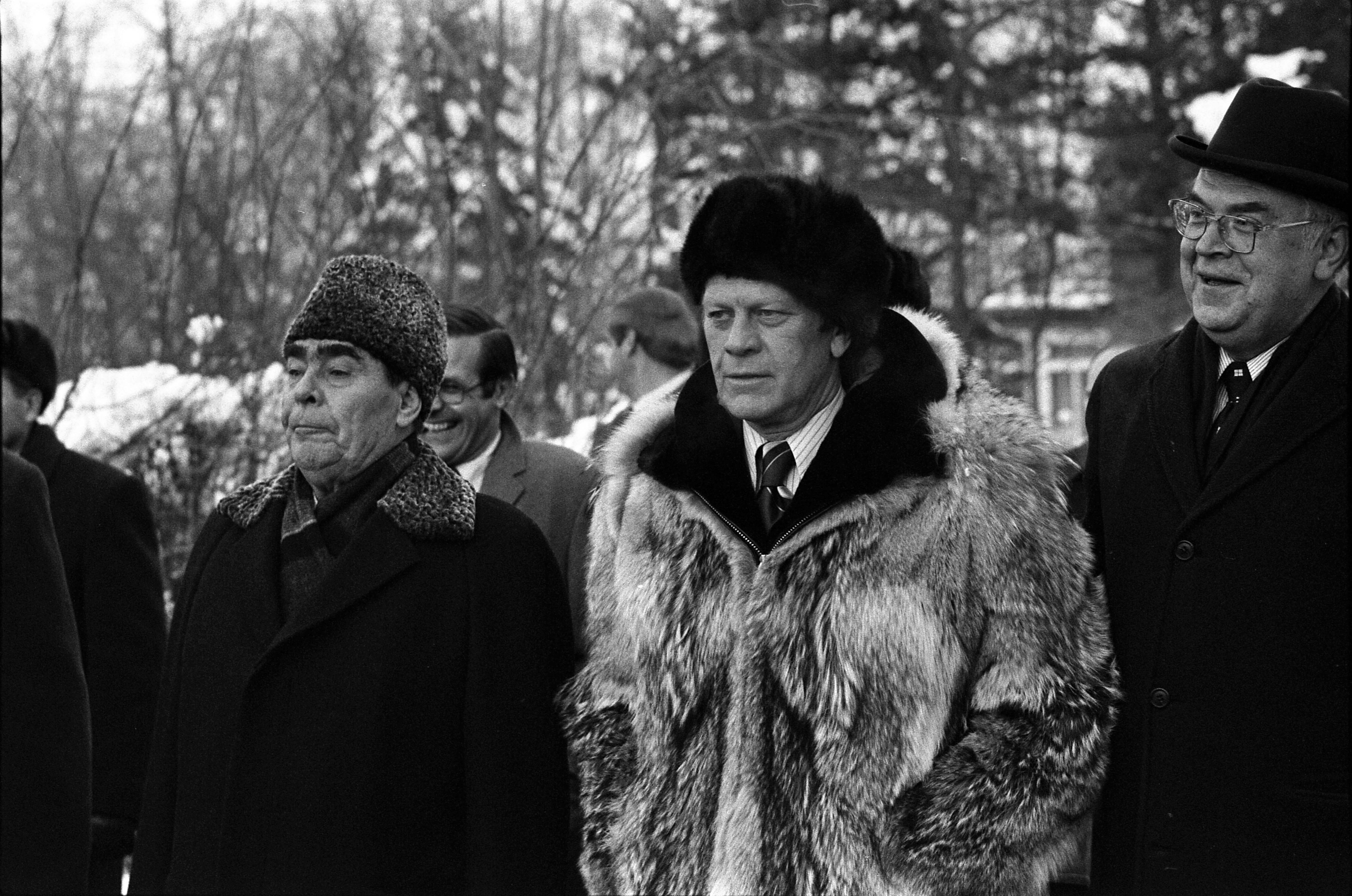 Photograph of President Gerald Ford and General Secretary Leonid Brezhnev as the two world leaders depart Okeansky Sanatorium after signing the Joint Communique on the Limitation of Strategic Offensive Arms.